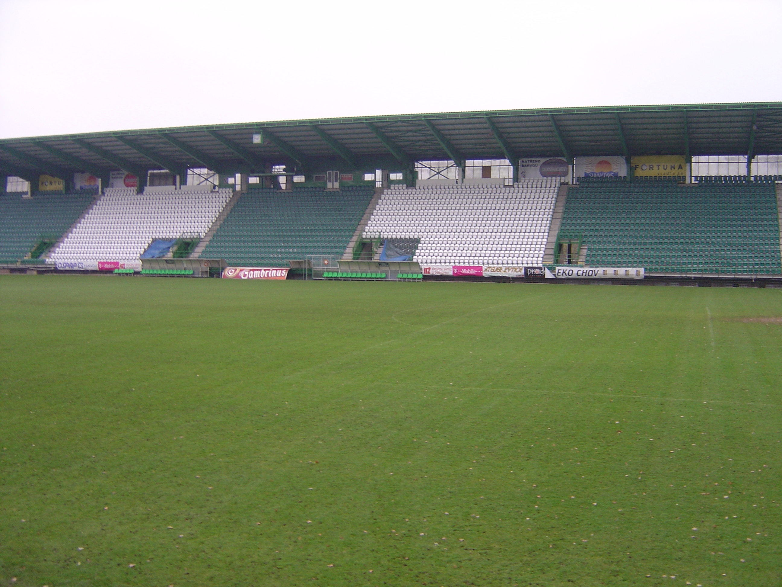 Main Stand at Ďolíček Stadium, Prague, Czech Republic